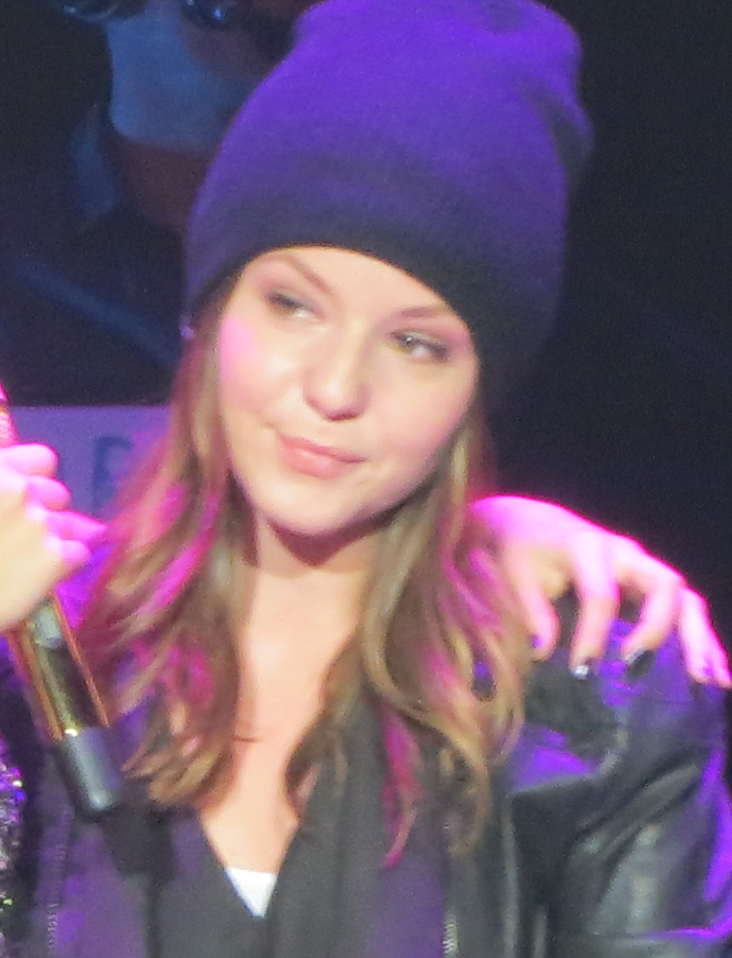 Selena Gomez and Samantha Droke, StarsDance Nov 2013 San Diego, CA